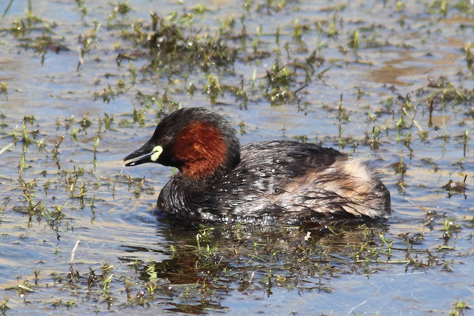 A few pics from a trip to Brandon Marsh nature reserve, Warwickshire, England, on 17/4/10.